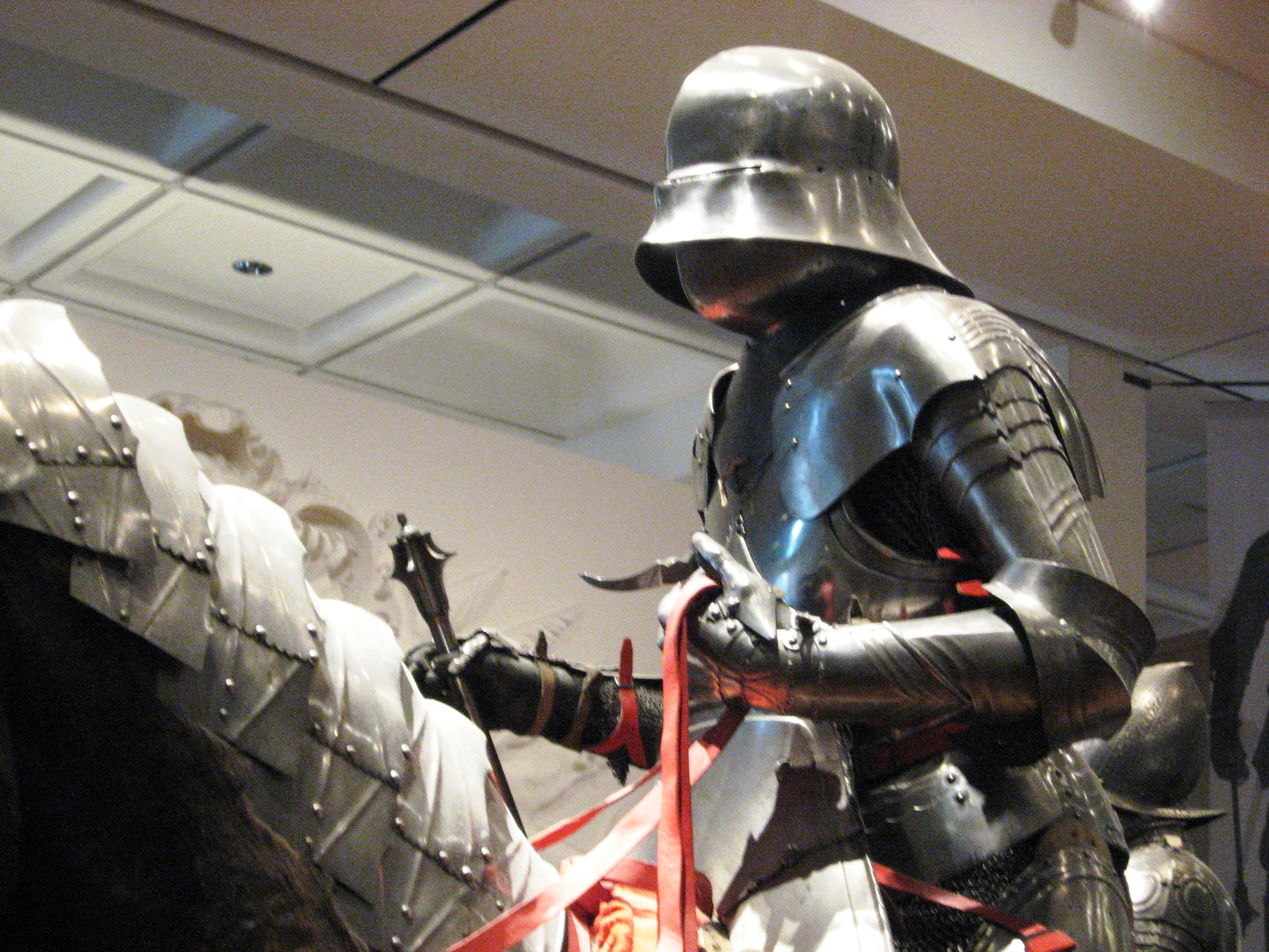 Armoured mounted knight: the armour is composite, made up of parts from various late 15th-century German pieces. The horse armour was made for Duke Waldemar VI of Anhalt-Zerbst (1450–1508). This photograph was taken at the Leeds Royal Armoury.[1]